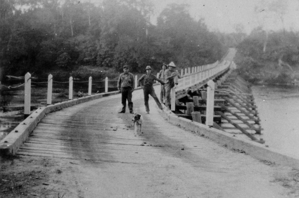 Abergowrie Bridge, Ingham, Queensland, ca. 1934. Wooden trestle bridge on the Herbert River. Note that the coordinates given by the source for this image are of the town of Ingham, not the bridge.